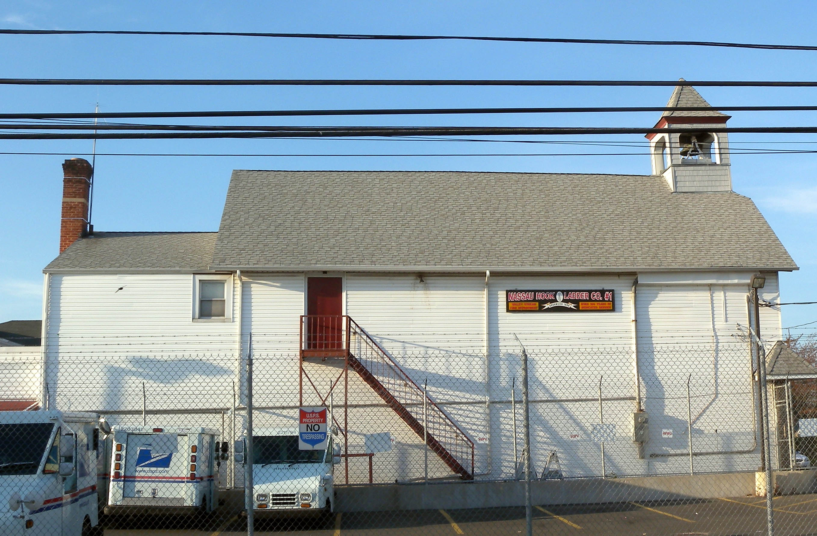 Looking north at Hook and Ladder Company 1 firehouse at Hawthorne and Corona Streets in eastern Valley Stream, New York on a sunny late afternoon.